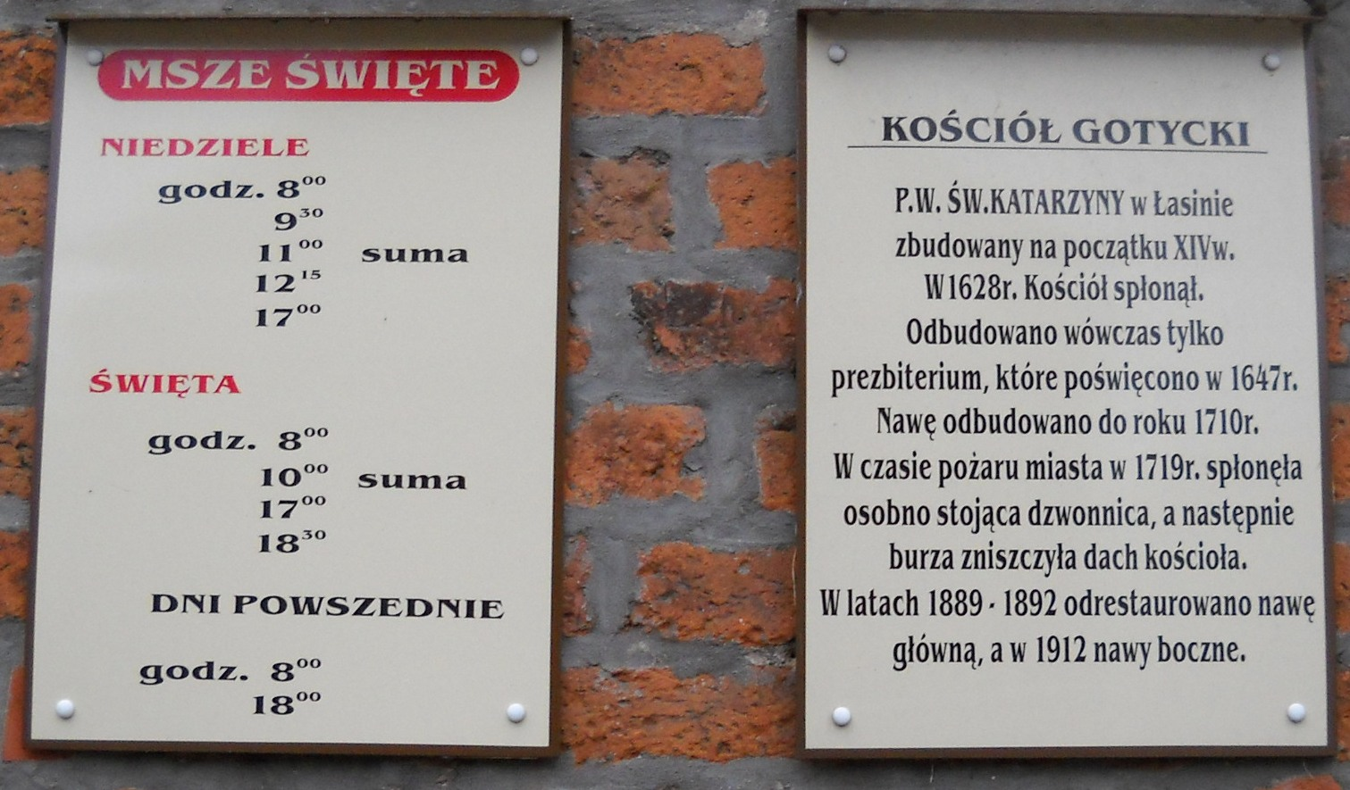 Church Łasin tab.